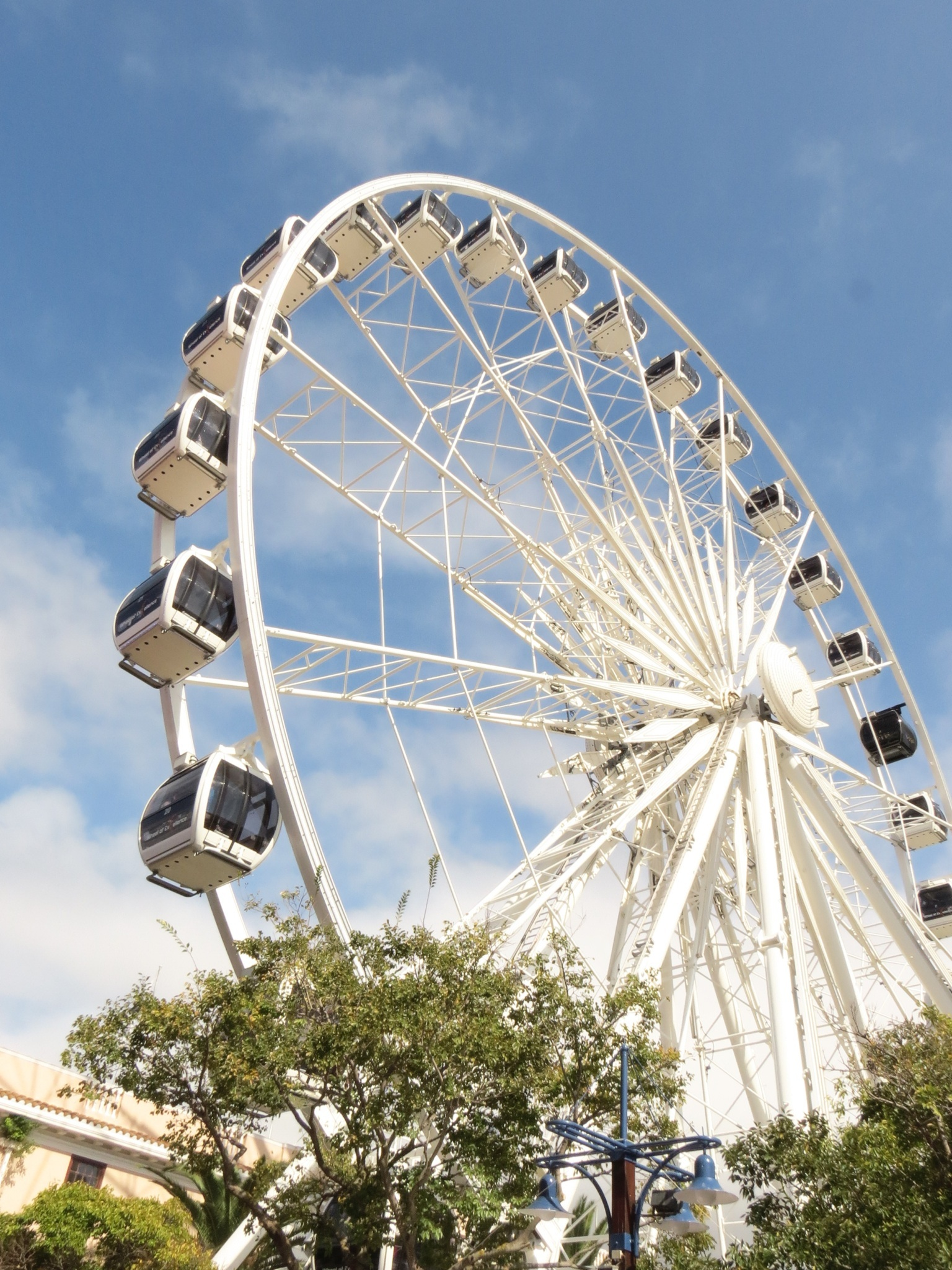 V&A Waterfront, South Africa